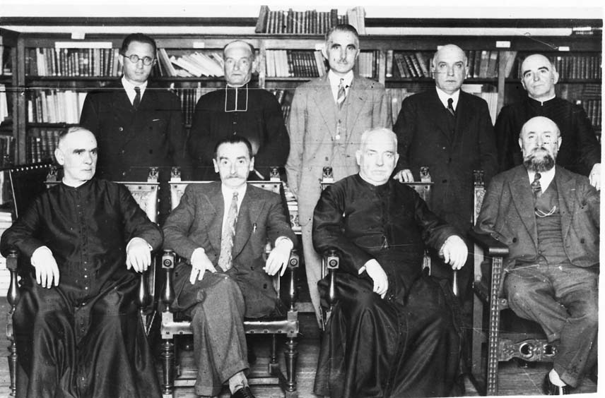 Some members of the Basque Language Academy in 1927 during an ordinary meeting.